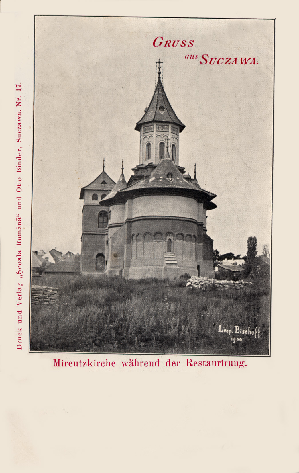 Mirăuţi Church in Suceava - Austro-Hungarian postcard (1900).